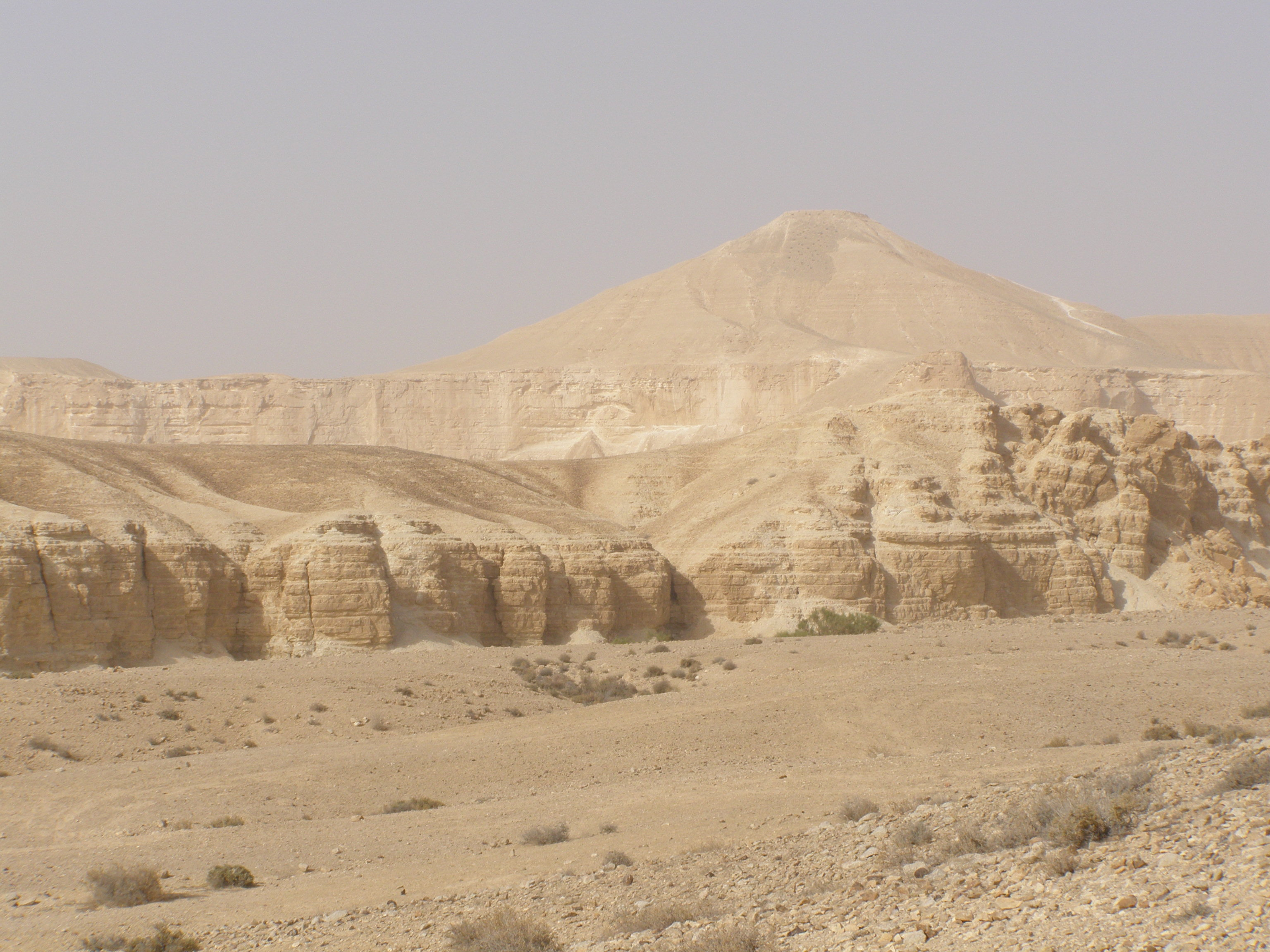 Nahal Akev, Hod Akev (576 m)